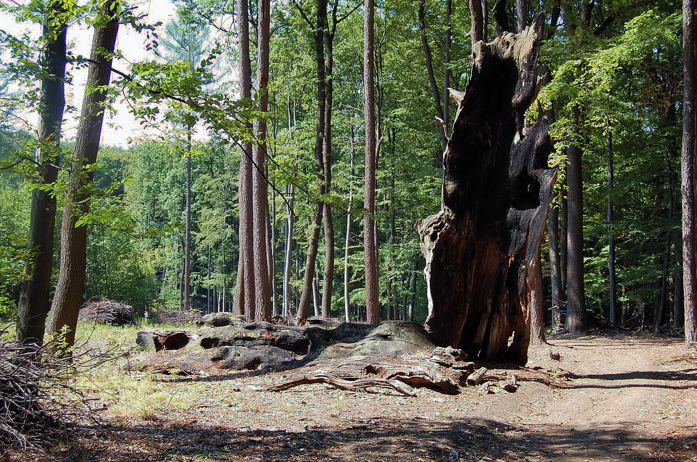 Ctibor´s oak - over 500 years old oak near Střílky